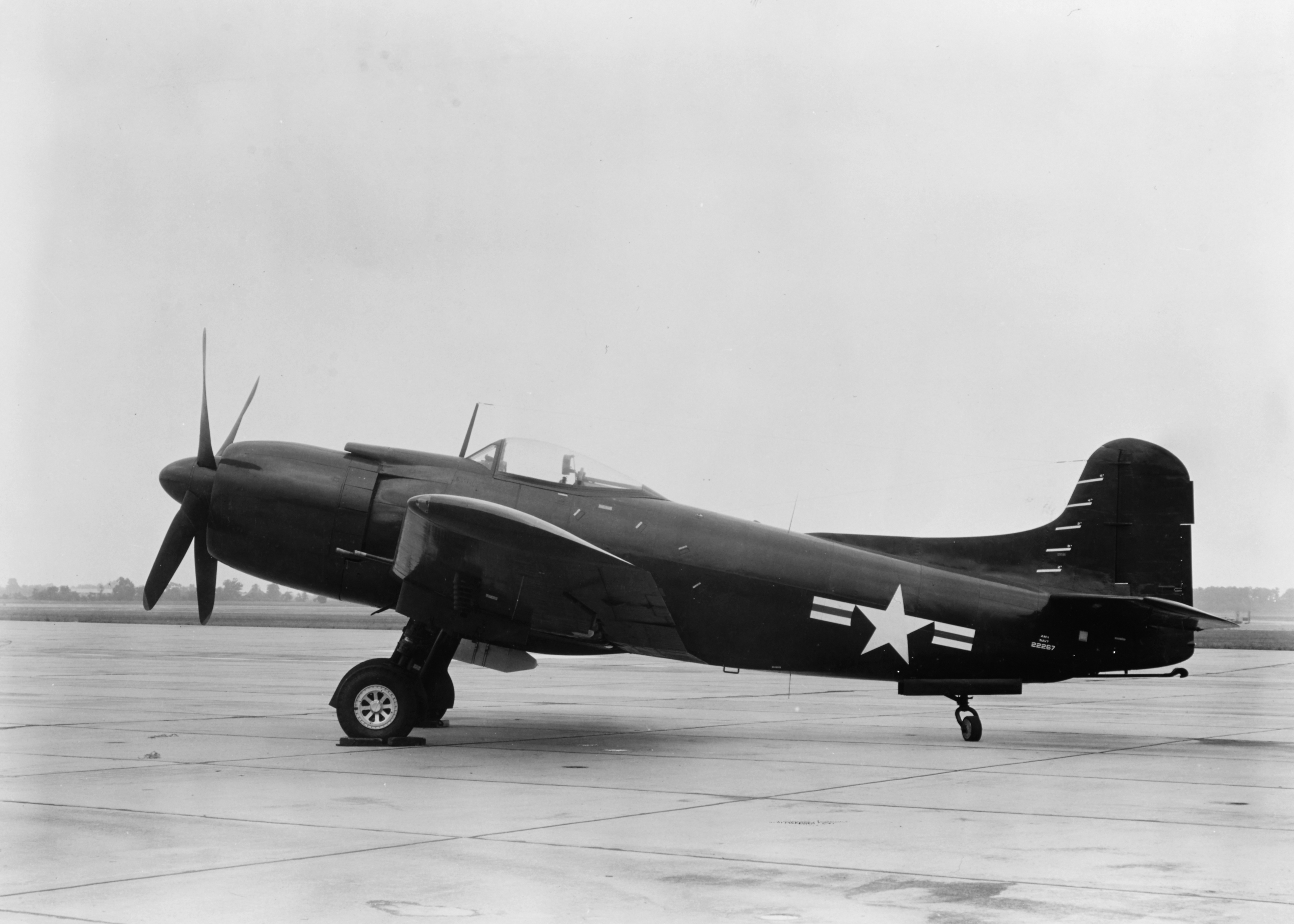 A U.S. Navy Martin AM-1 Mauler (BuNo 22267) at the Naval Air Test Center Patuxent River, Maryland (USA), on 29 August 1947.